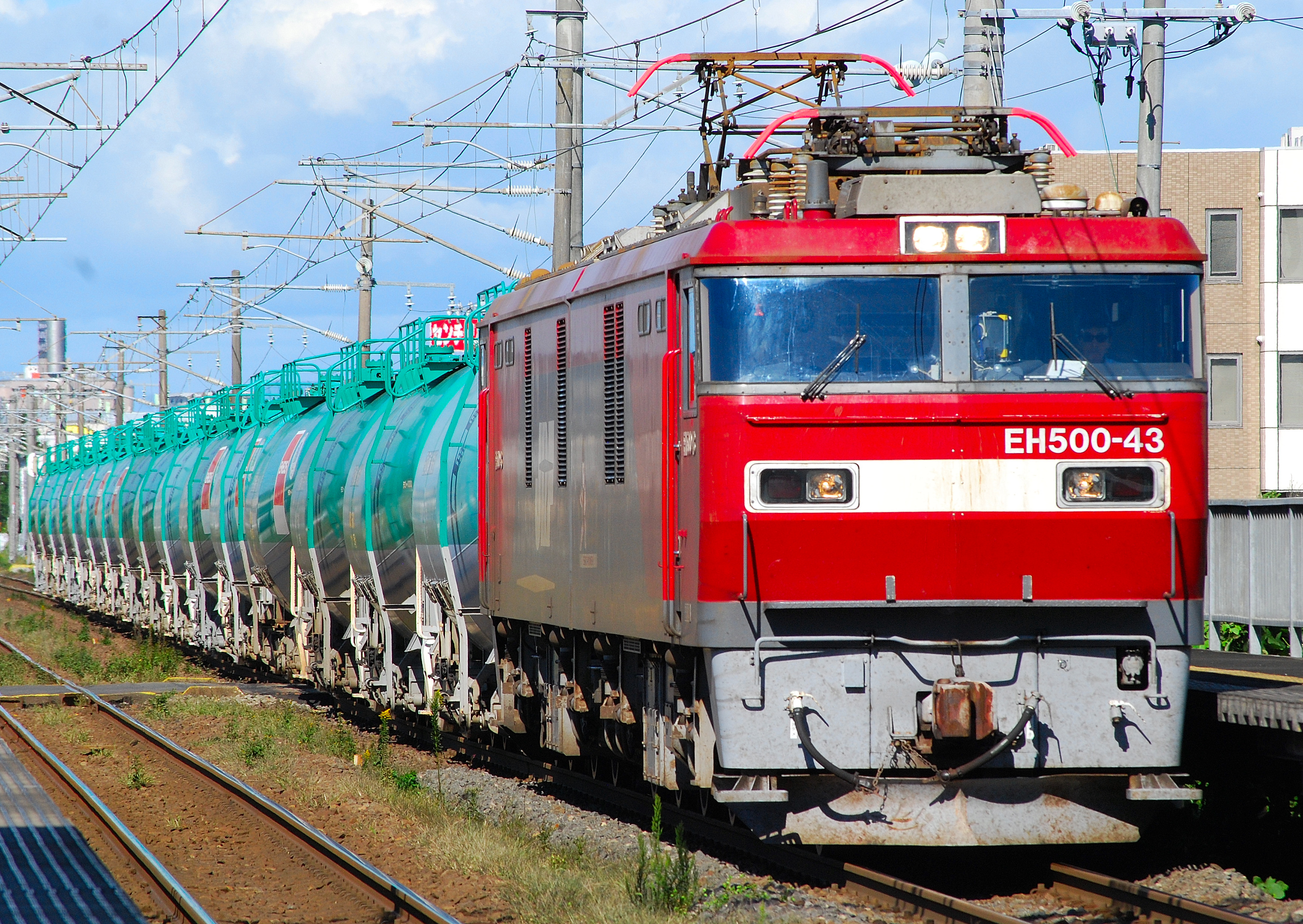 JR Freight Class EH500 electric locomotive EF500-43 on a freight train at Tatekoshi Station on the Tohoku Main Line